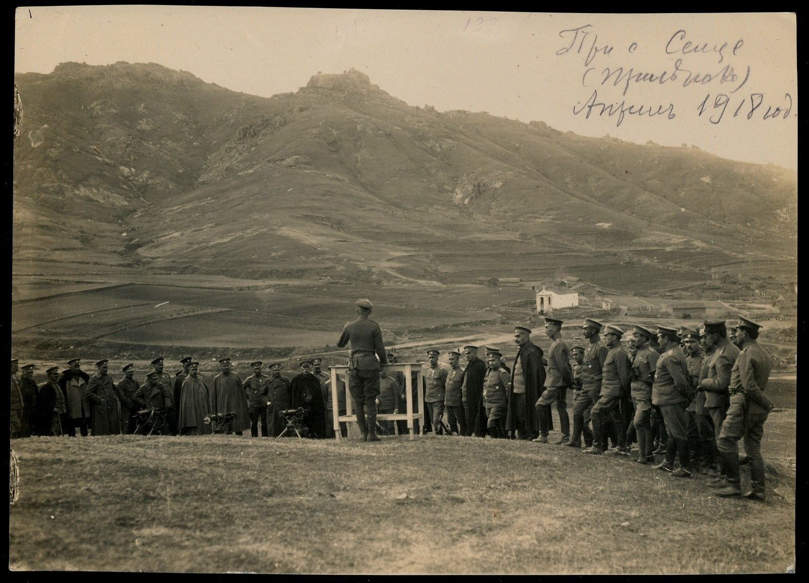 Bulgarian Troops at Selce, Prilep, April 1918